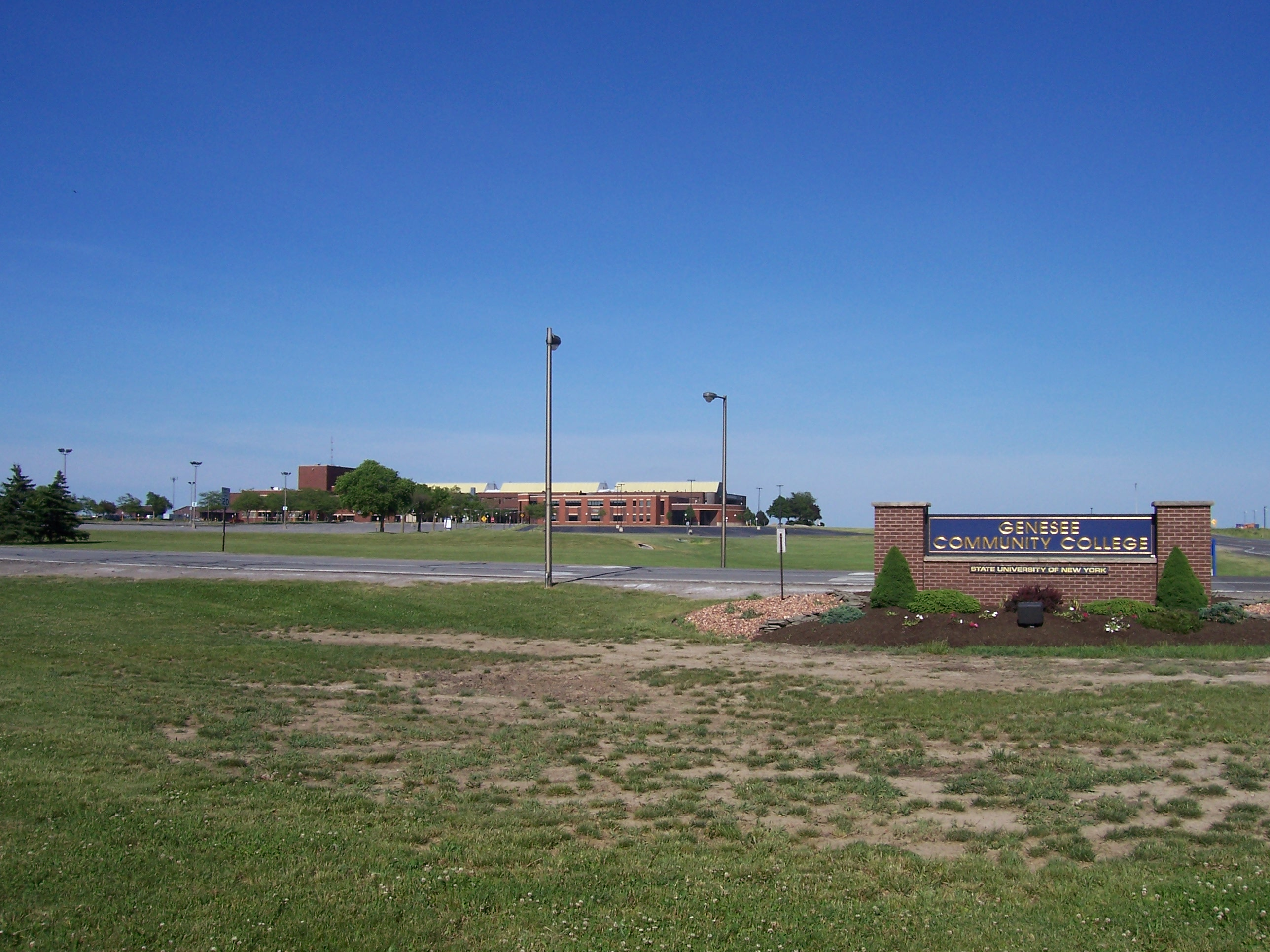 Genesee Community College main campus